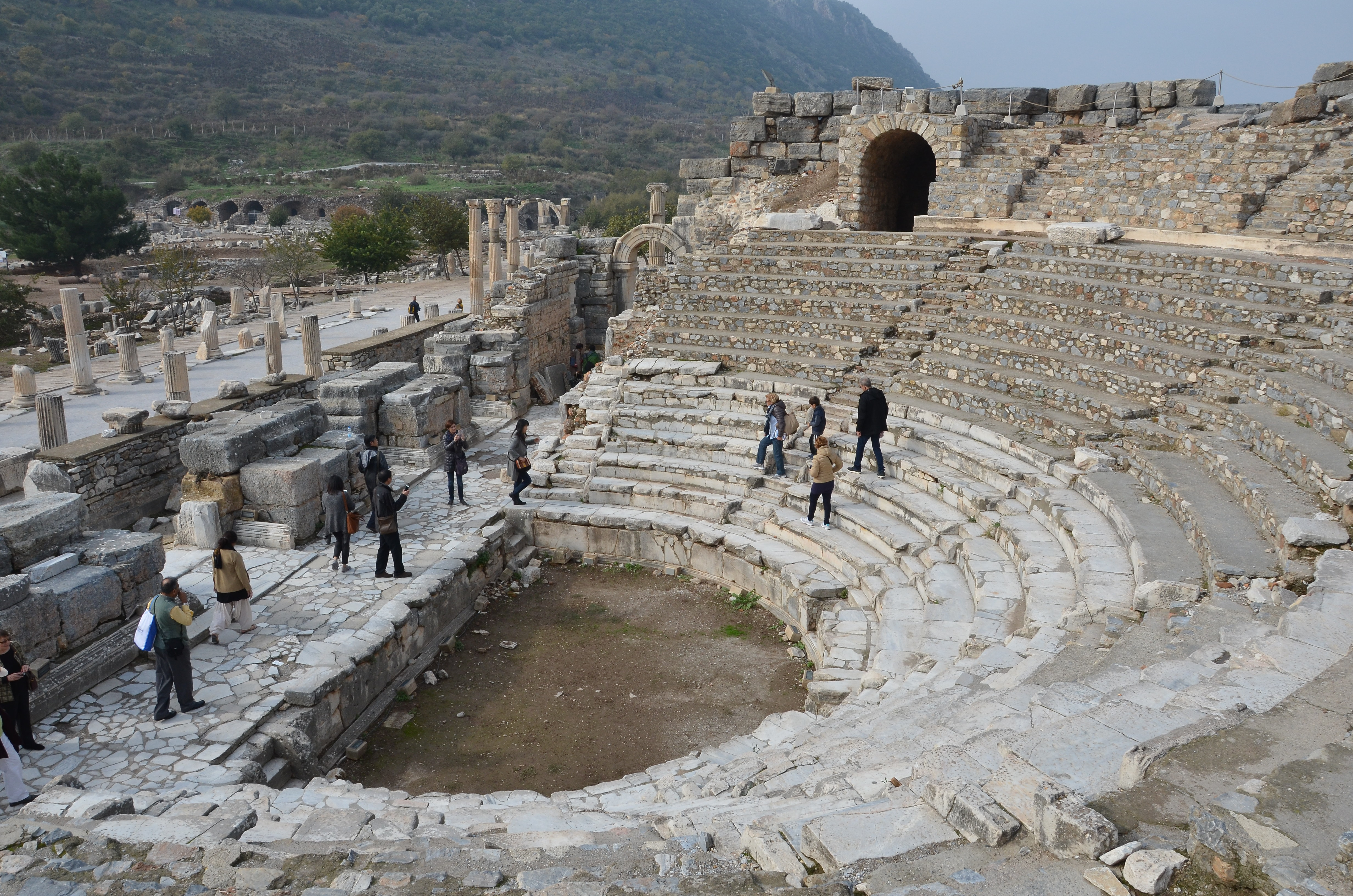 The Odeon theatre. (or assembly hall). Almost sounds like the name of a movie hall of yesteryear! Well, it's also called the Bouleuterion. This building has the shape of a small theatre with the stage building, seating places and the orchestra.It had double function in use. First it was used as a Bouleuterion (assembly hall) for the meetings of the Senate. The second function was as a concert hall for performances. It was constructed in the 2nd century A.D by the order of Publius Vedius Antonius and his wife Flavia paiana, two wealthy citizens in Ephesus. It looks a tad small for a concert hall though. (Ephesus (Efes)/ Selcuk, Kusadasi, Turkey, Nov. 2014)